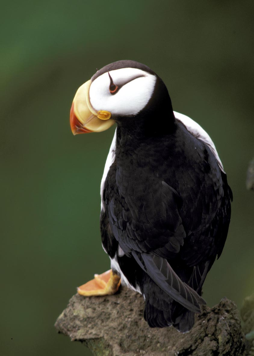 Horned Puffin, Fratercula corniculata